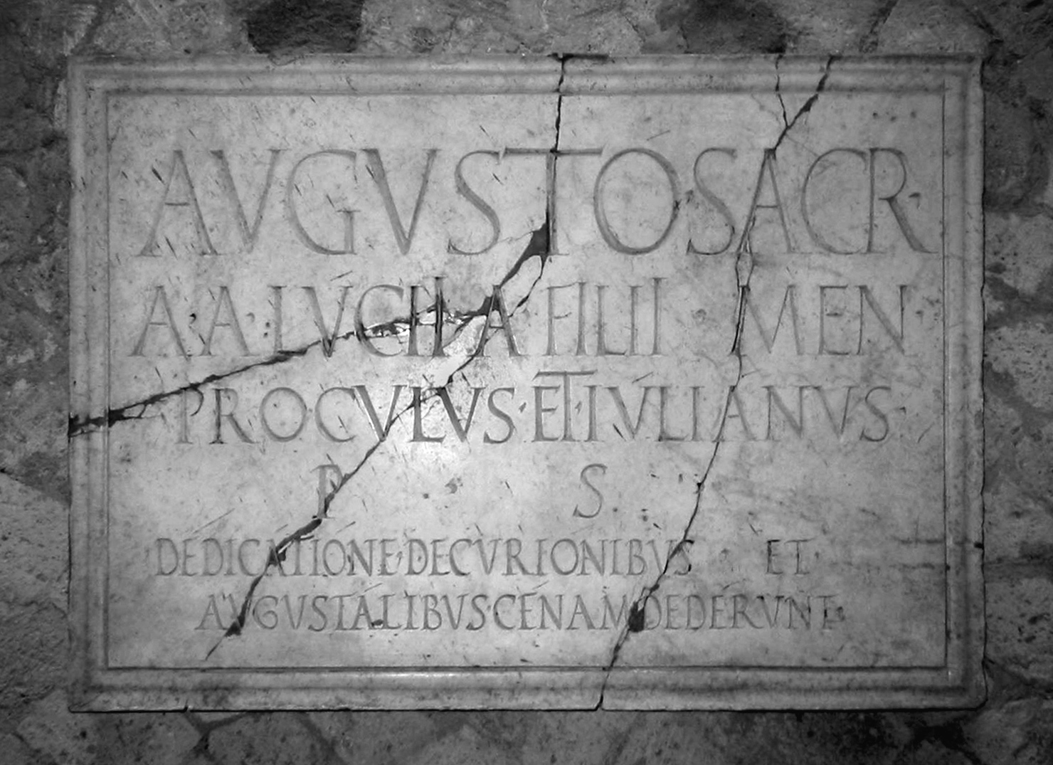 Marble sign in the Collegio degli Augustali in Herculaneum in Italy.